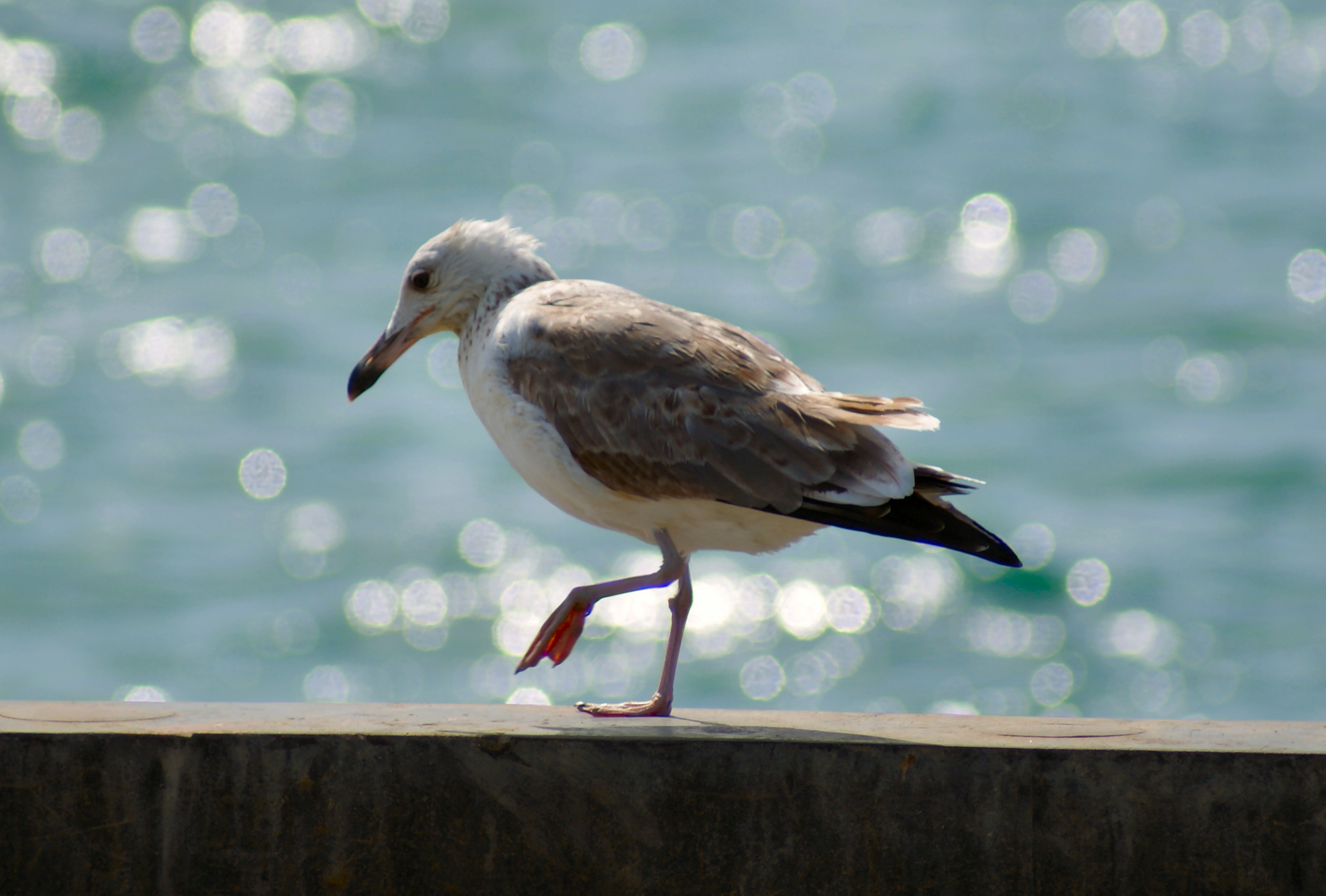 Great Black-headed Gull at the harbour of Abu Dhabi.